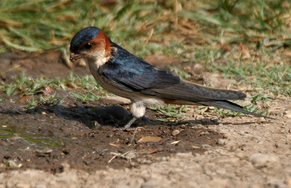 Red-rumped Swallow Cecropis daurica in Parli, Maharashtra, India.